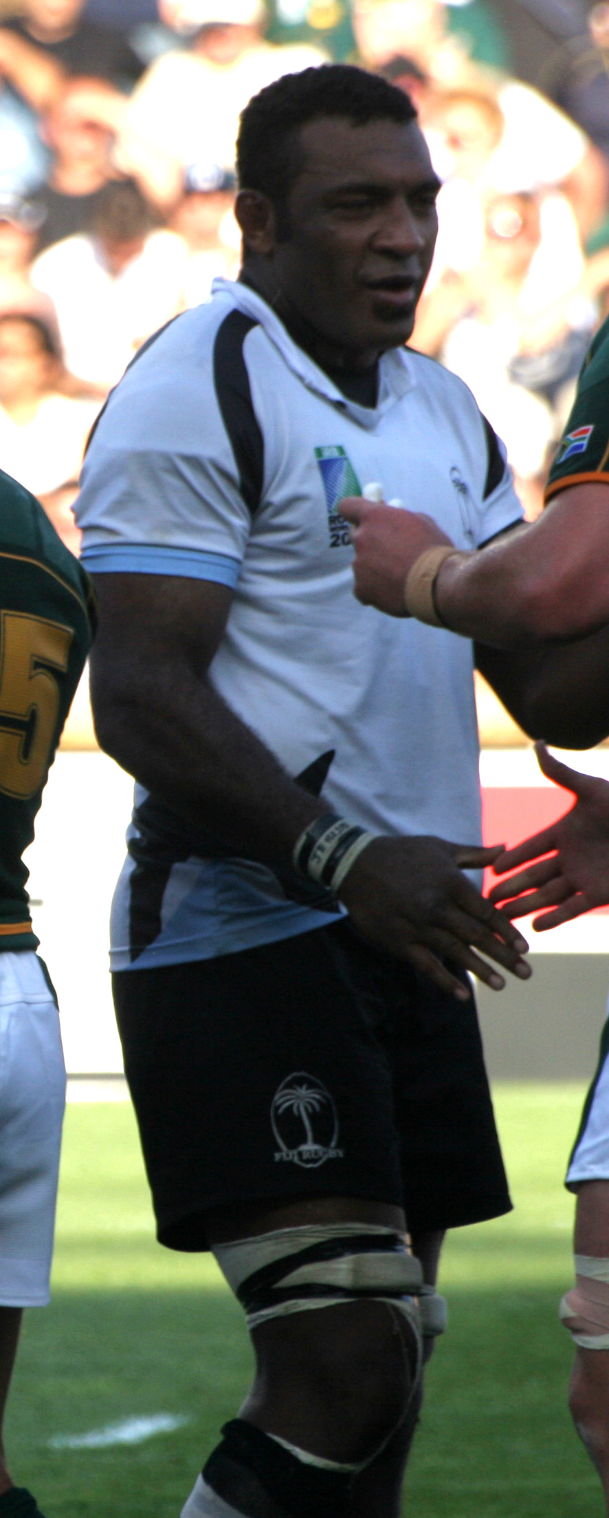 Fijian rugby union player Kele Leawere during 2007 Rugby World Cup quater-final against South Africa, that took place in Marseille.